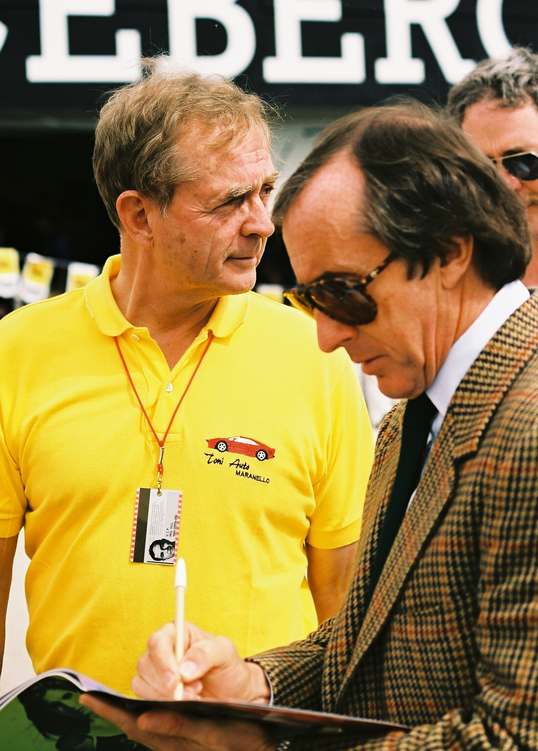 Phil Hill (left) and Jackie Stewart (right) at the 1991 United States Grand Prix.